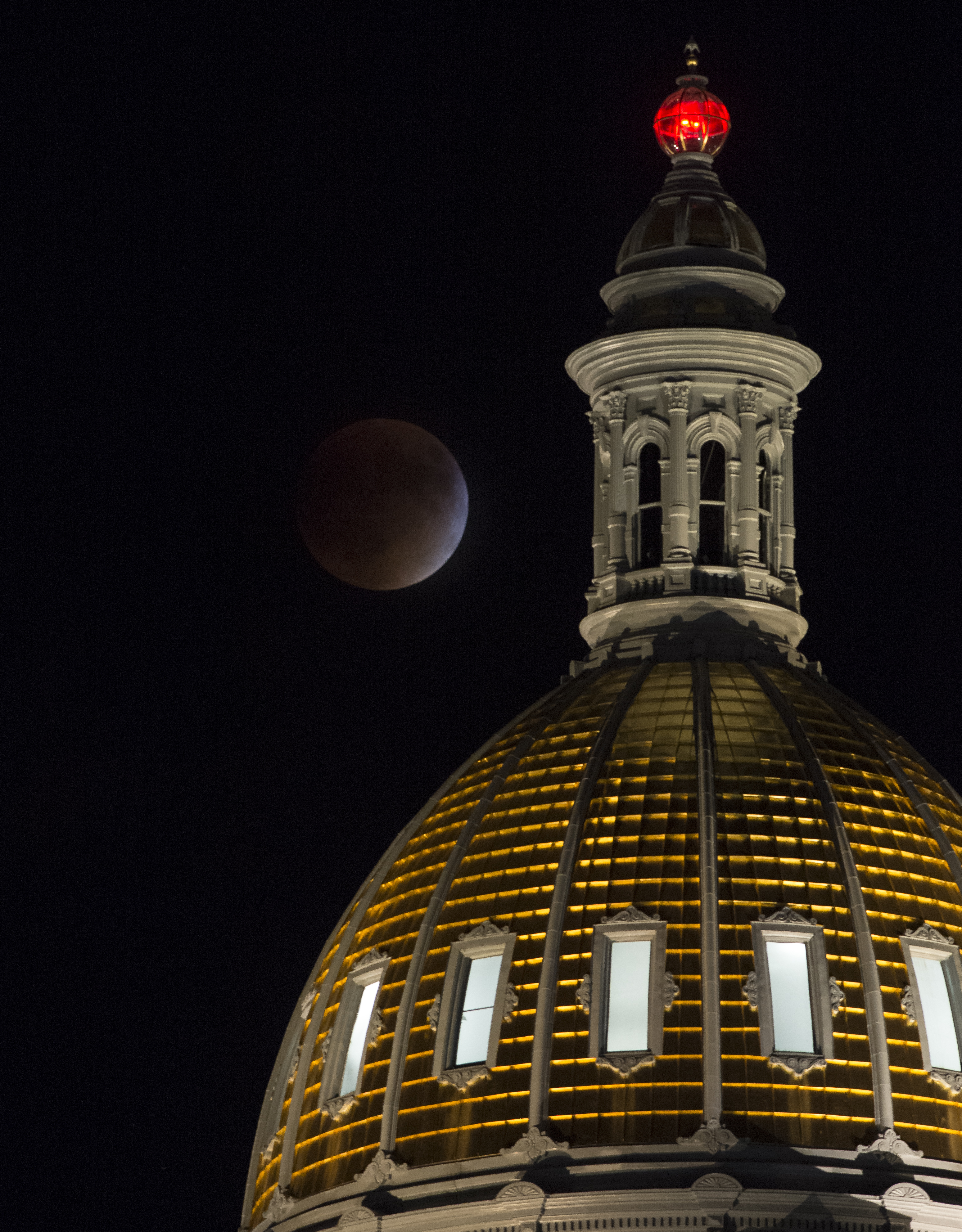 A perigee full moon, or supermoon, is seen during a total lunar eclipse behind the Colorado State Capitol Building on Sunday, Sept. 27, 2015, in Denver. The combination of a supermoon and total lunar eclipse last occurred in 1982 and will not happen again until 2033. Photo Credit: (NASA/Bill Ingalls)